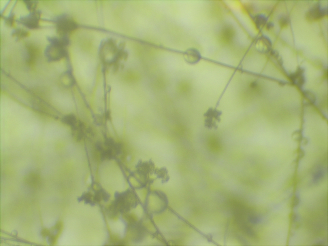 Botrytis cinerea conidiophores magnified 16X. Identified using Barnett, H. L. & Hunter, B. B. (1998) Illustrated Genera of Imperfect Fungi. APS Press: St. Paul, MN; pp. 76–7 ISBN 0-89054-192-2. Recovered from grape (Vitis vinifera L.). Host status confirmed using Farr, D. F., Bills, G. F., Chamuris, G. P., & Rossman, A. Y. (1995) Fungi on Plants and Plant Products in the United States. APS Press: St. Paul, MN; pp. 550–2 ISBN 0-89054-099-3.